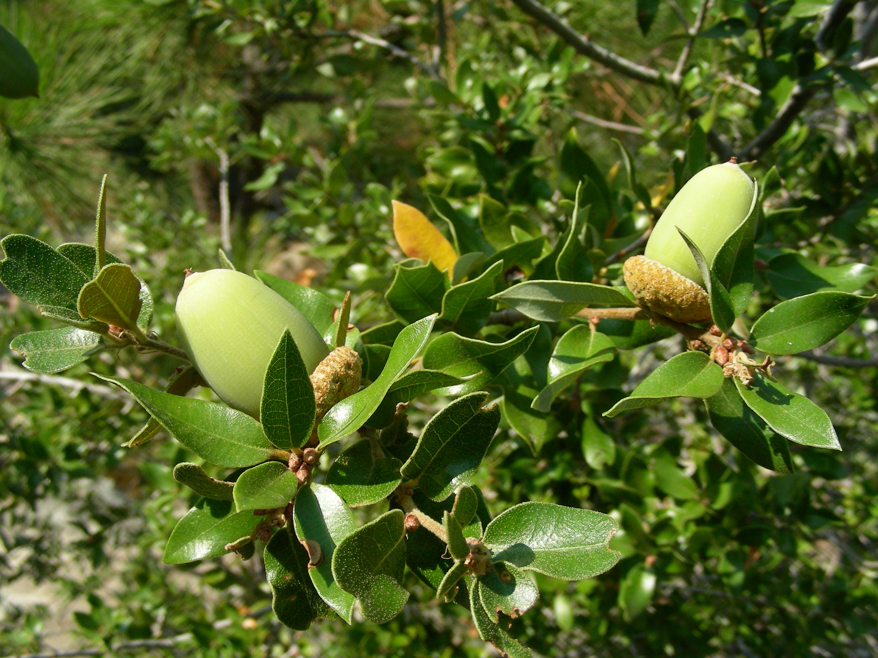 Quercus chrysolepis leaves and acorns, Kings Canyon National Park, California